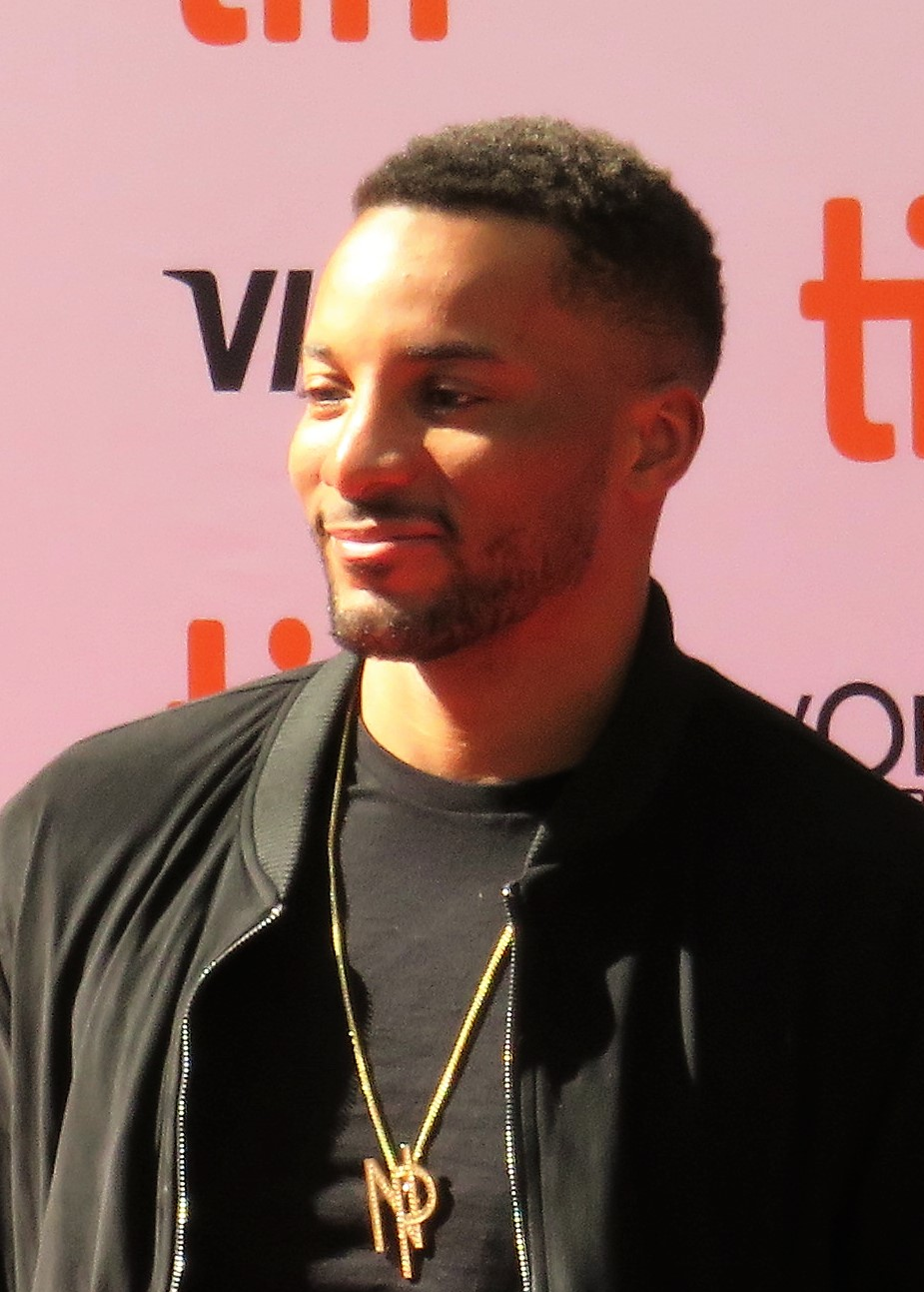 Norman Powell at the premiere of The Carter Effect, 2017 Toronto Film Festival